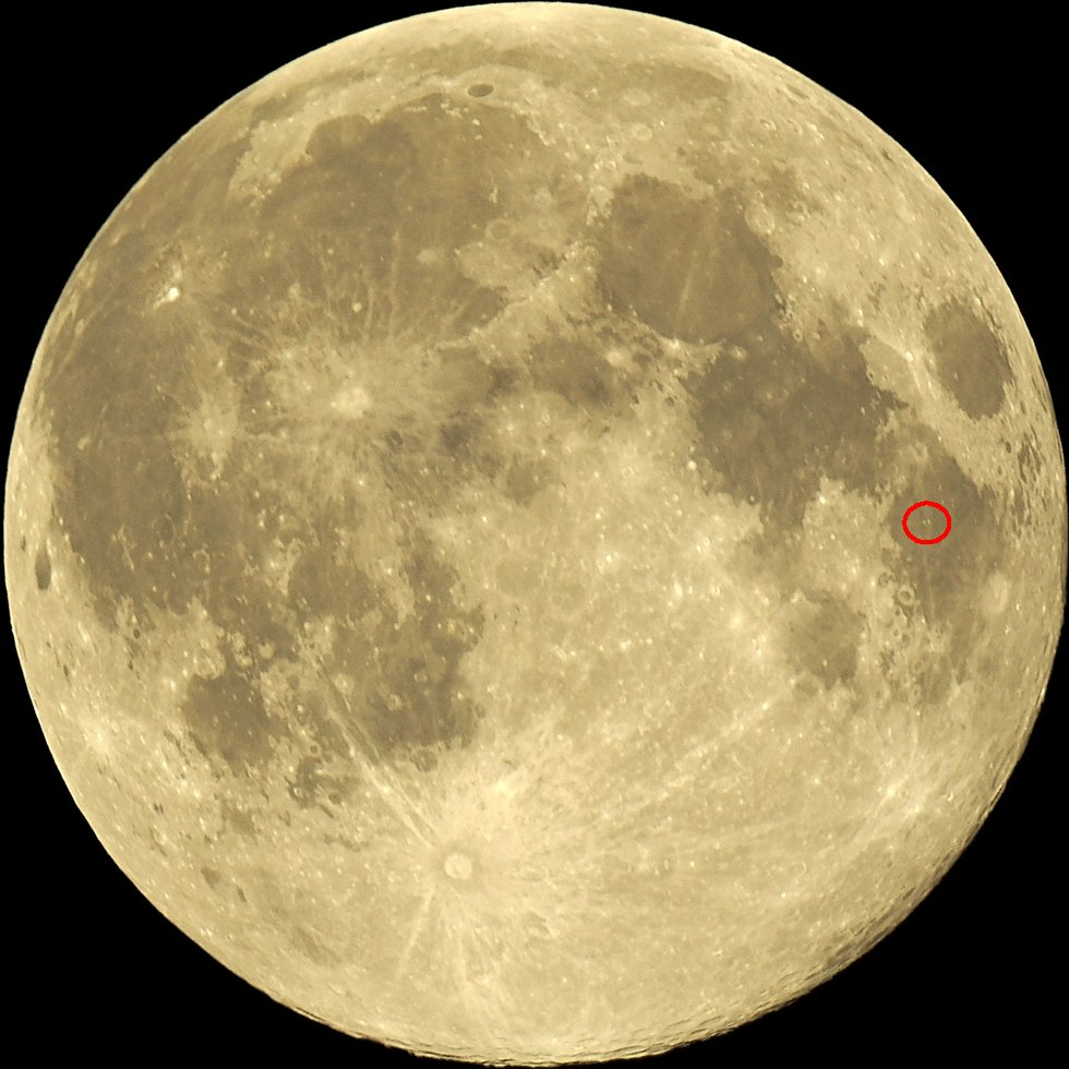 Location of crater Messier on the Moon